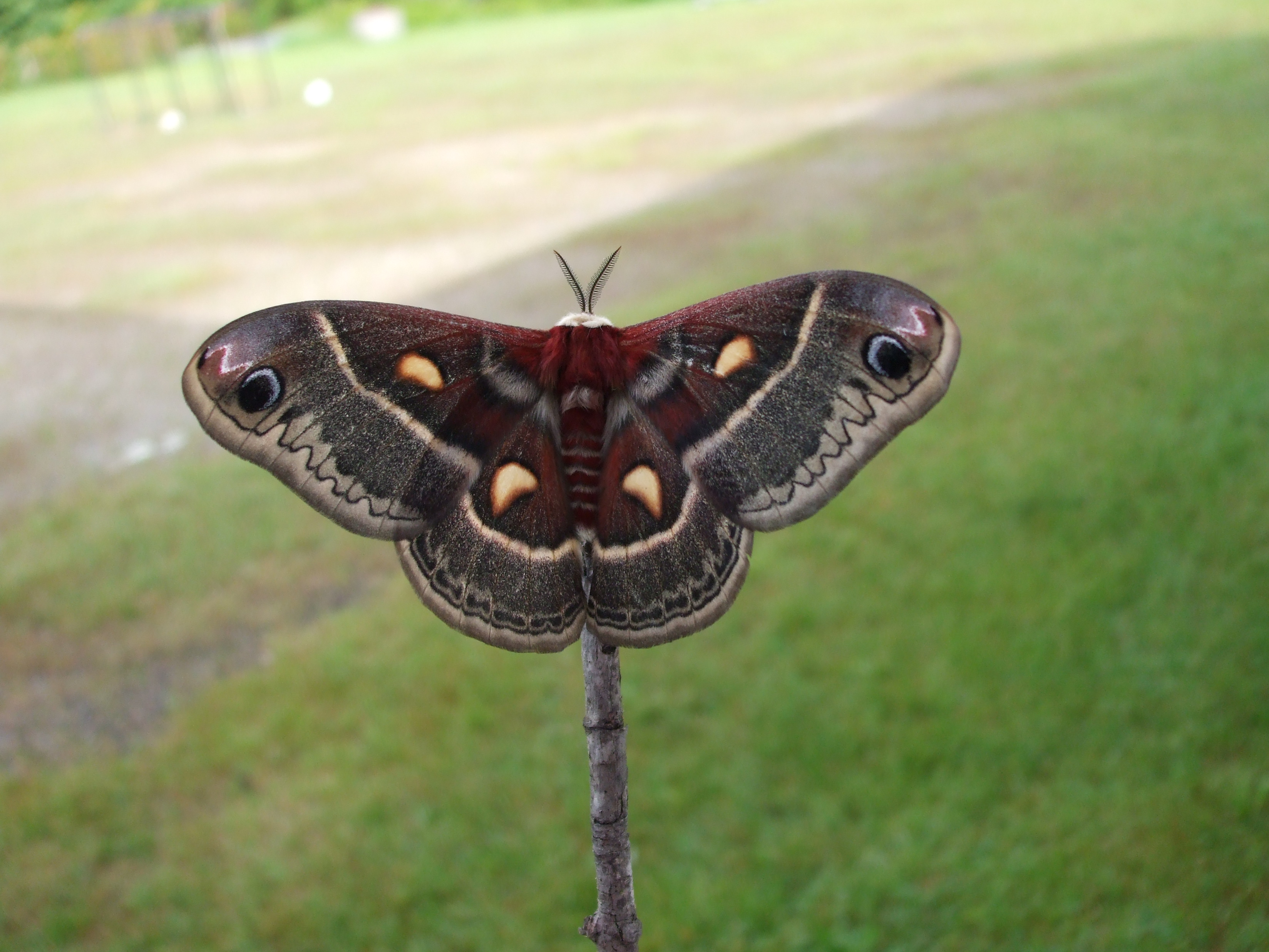 Hyalophora columbia female